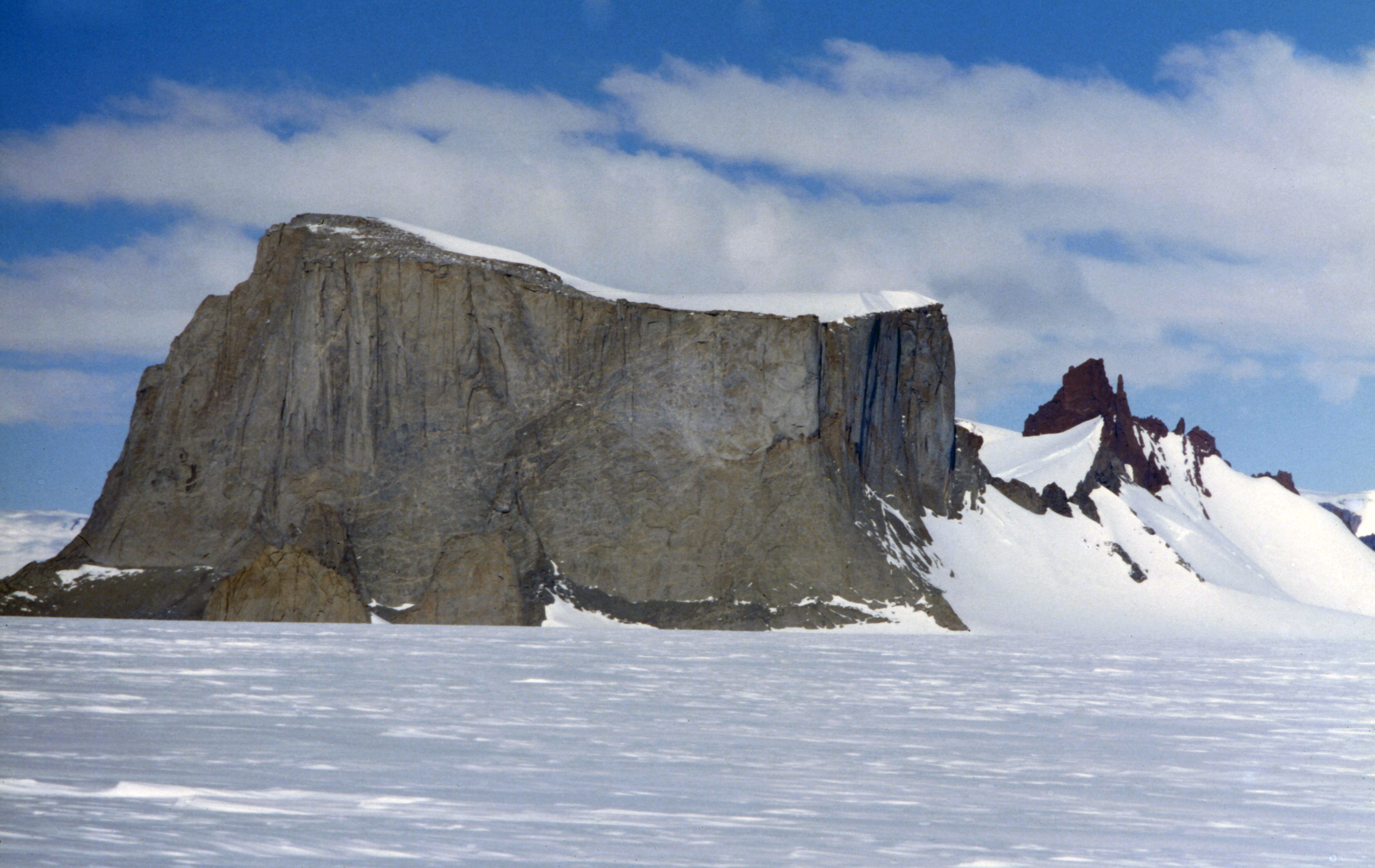 Hoggestabben in the northwestern Mühlig-Hofmann-Mountains, Antarctica